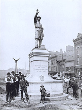 Controversial sculpture honoring the police presence during the Haymarket riots. John Gelert, Haymarket Riot Monument 1889.